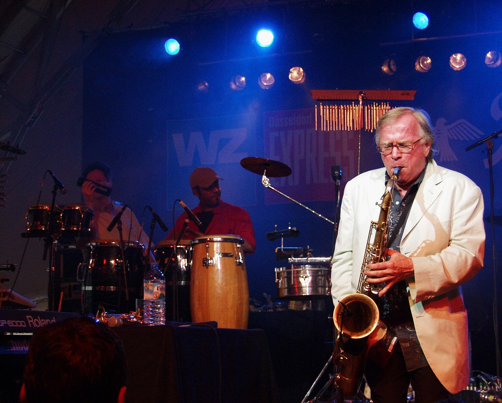 Klaus Doldinger at the "Düsseldorf Jazz Rally" on June 26, 2004